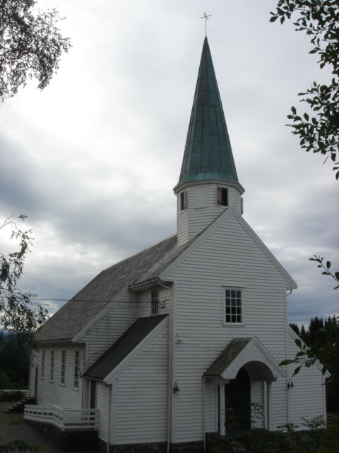 Hundvin Church in Lindås in Hordaland, Norway